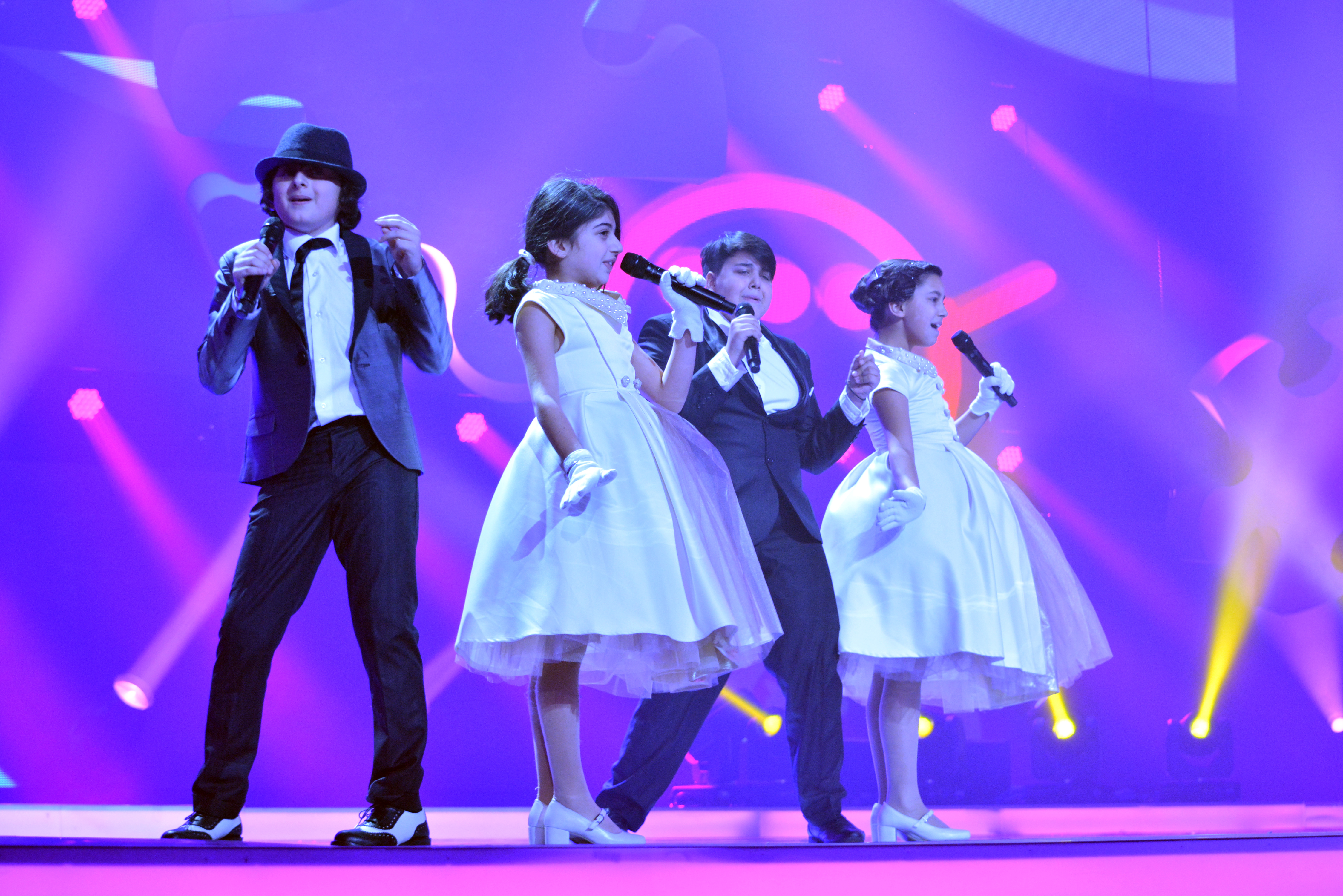 JESC 2013 (Georgia) Smile Shop at rehearsal